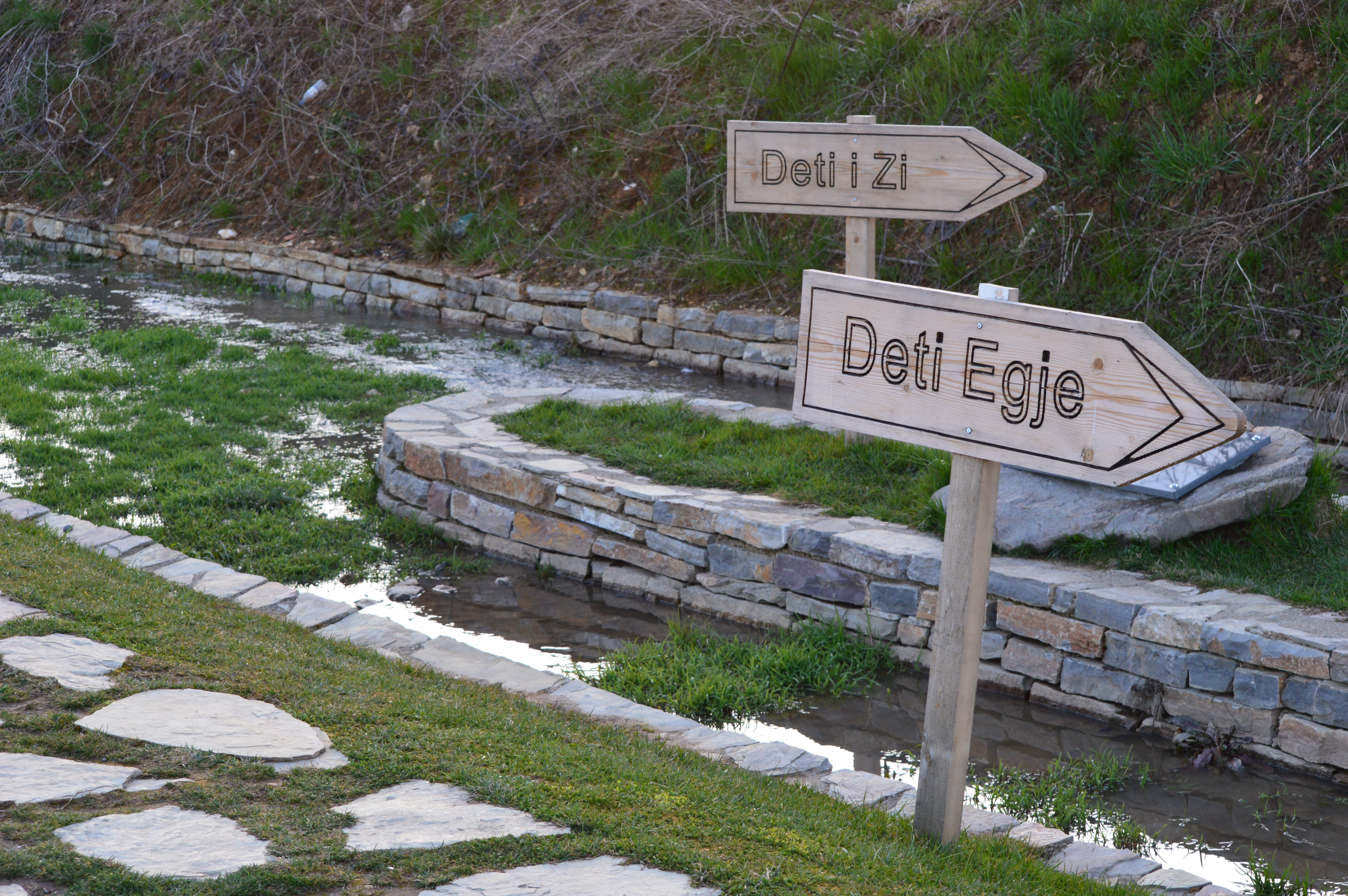 After the Casiquiare, the Orinoco river branch; The Neredime, river Bifurcation in Ferizaj, Republic of Kosova, is the first phenomenon in Europe, and second in the world.